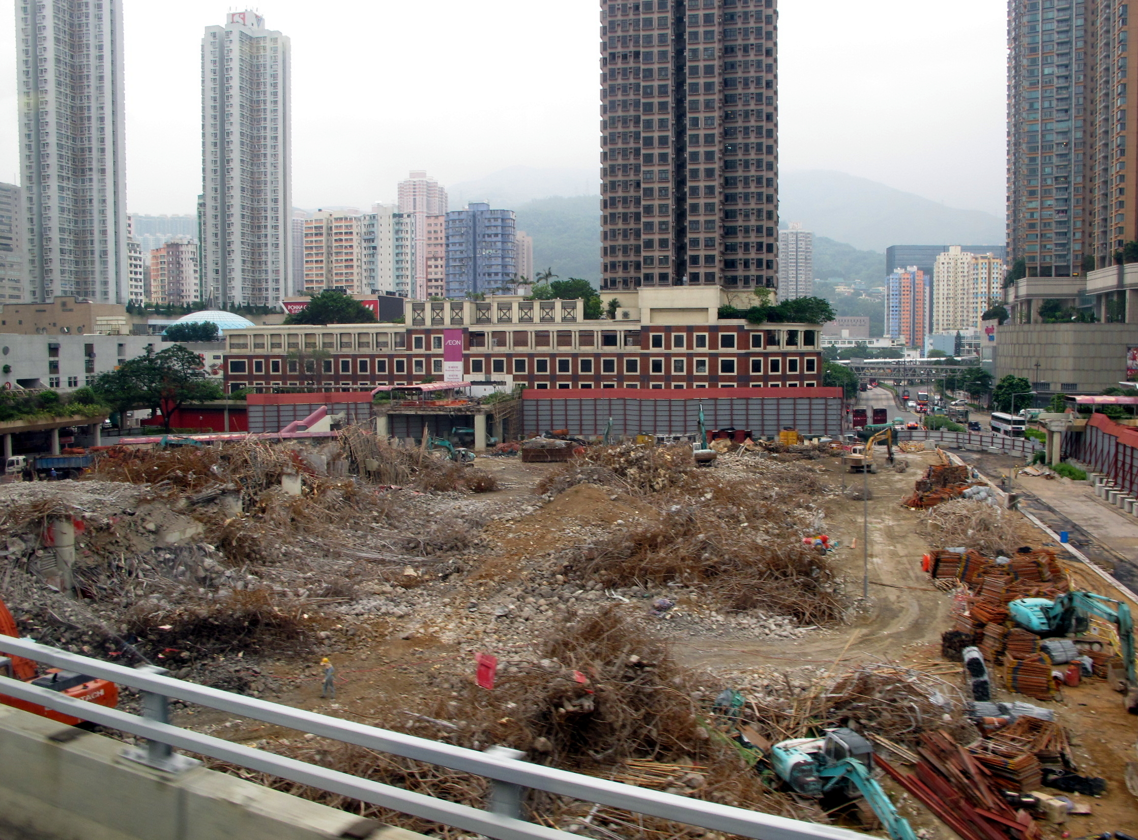 Tsuen Wan Transport Complex Demolition